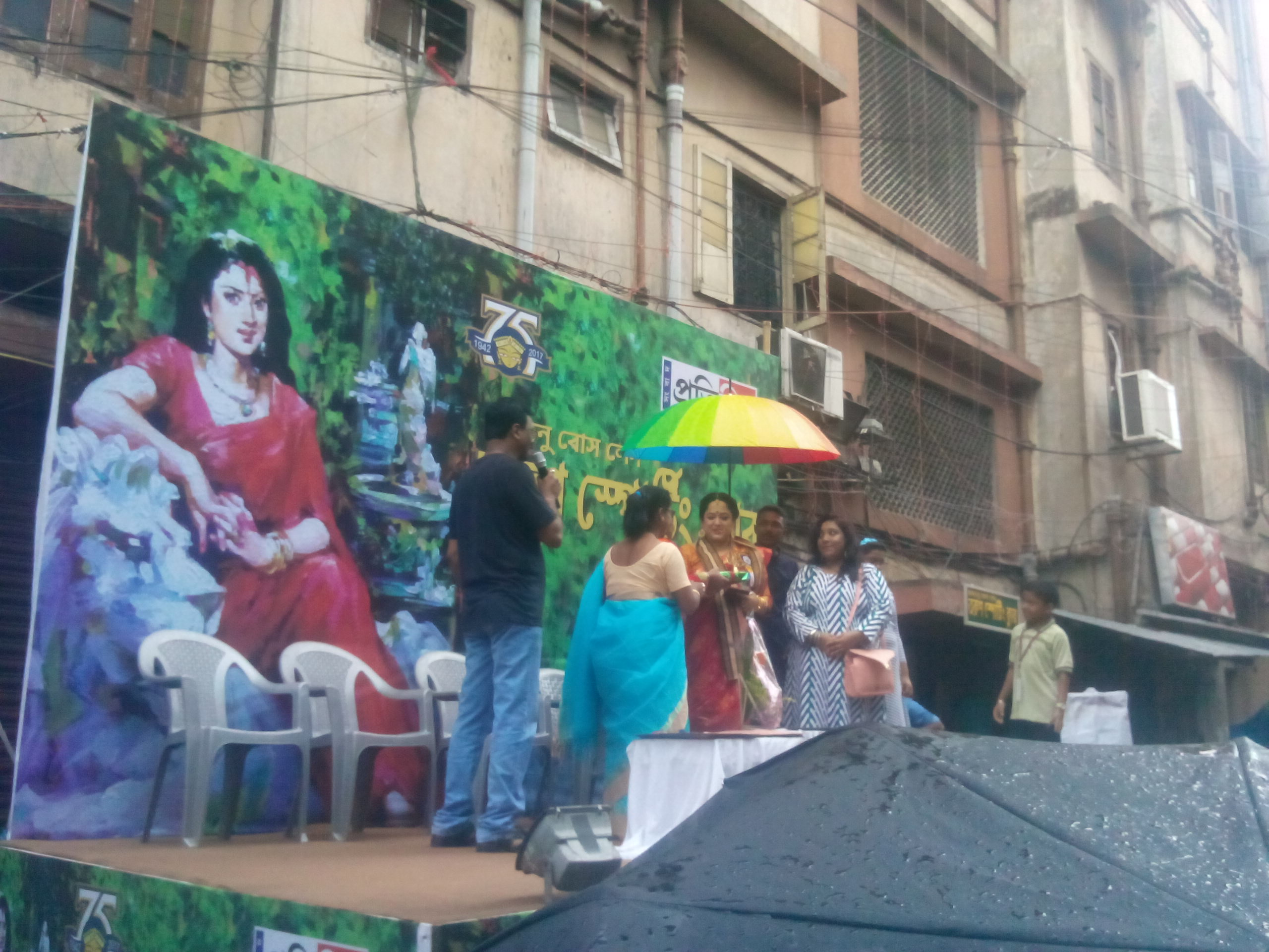 Aparajita Auddy in ramtanu Bose lane puja program